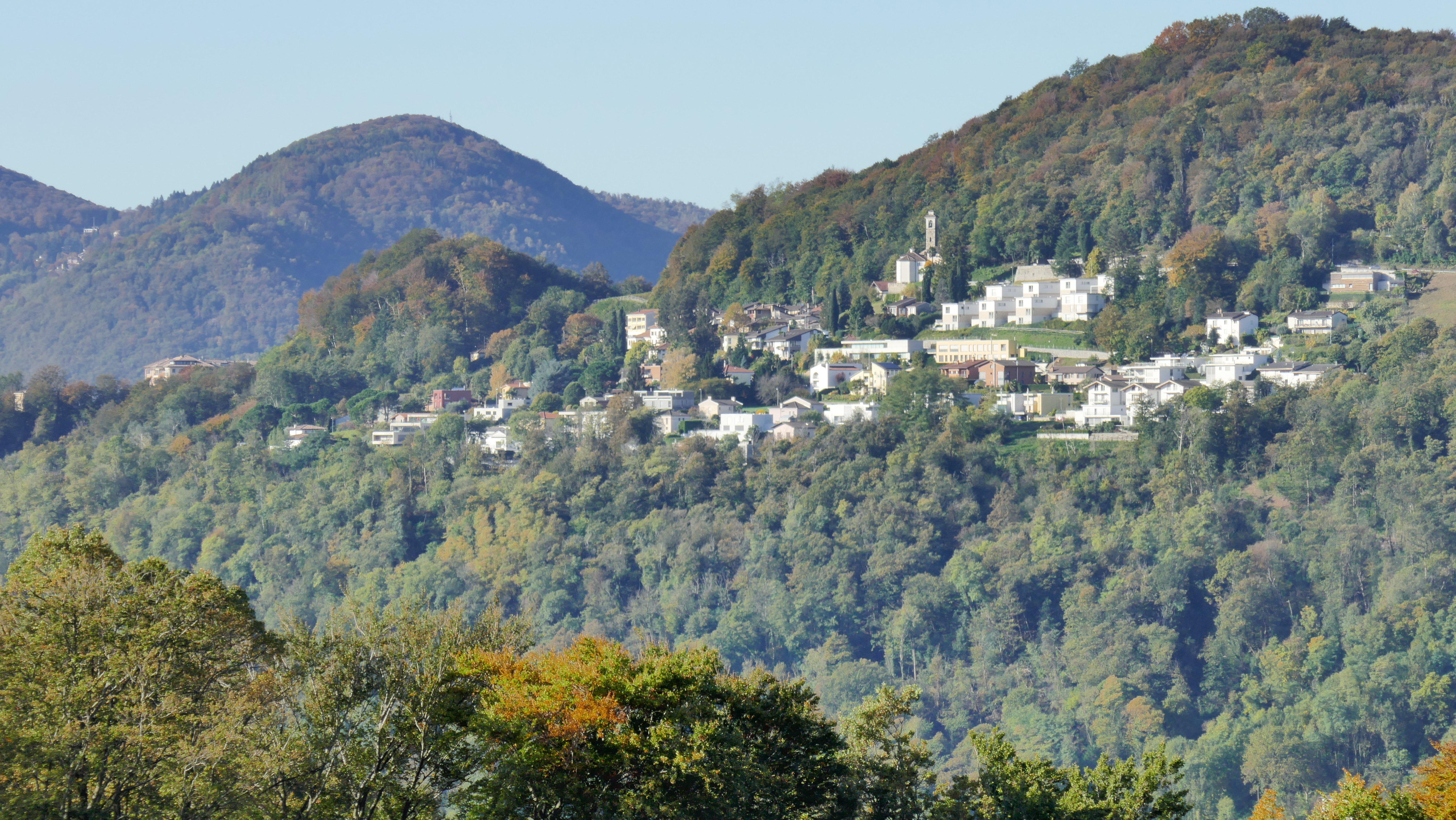 Agra is a village belonging to the municipality of Collina d'Oro, near Lugano in the Swiss Canton of Ticino.